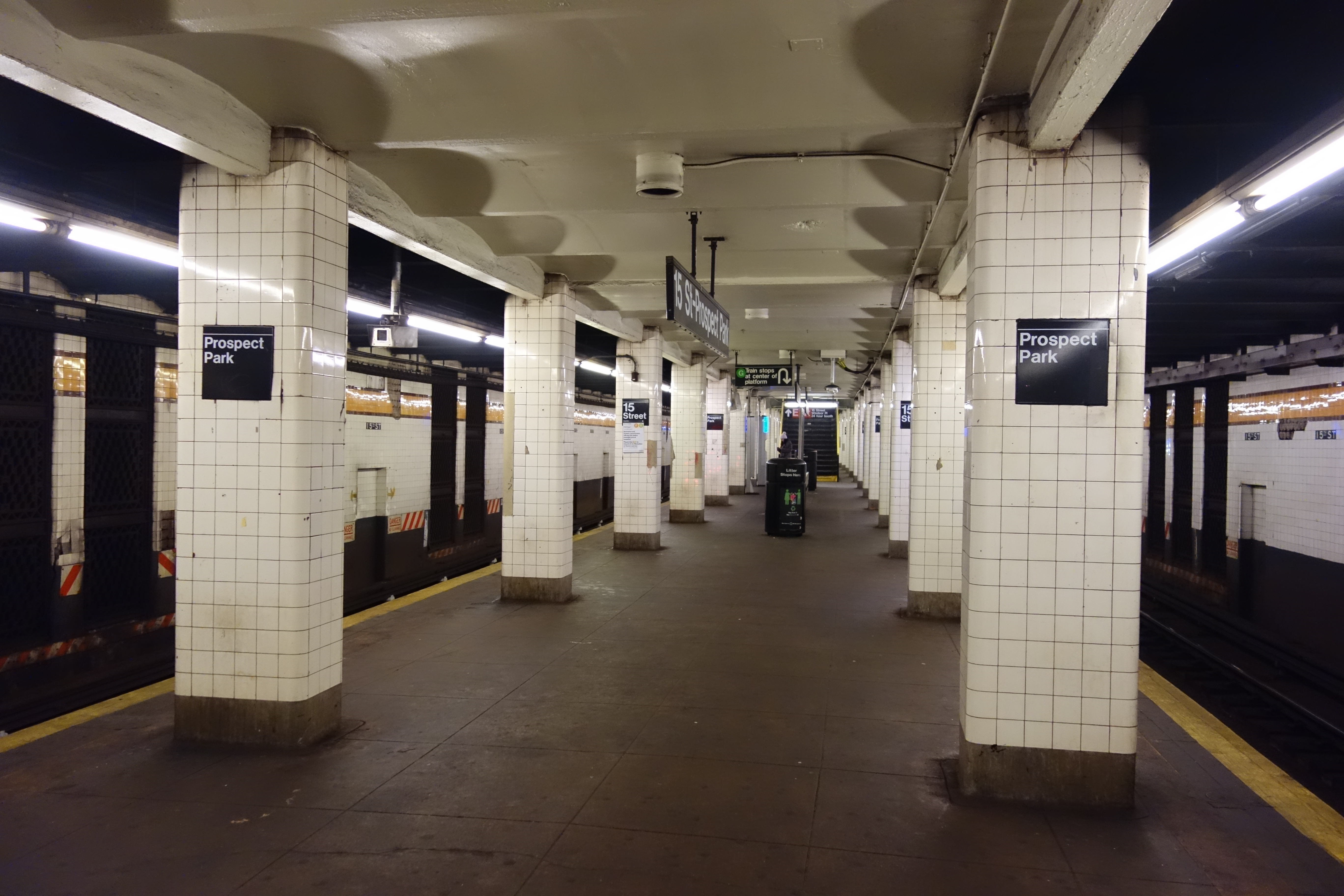 Looking south from the center of the 15th Street – Prospect Park IND station, near Bartel-Prichard Square under Prospect Park West and 16th Street in Park Slope / Windsor Terrace, Brooklyn. The station's single platform, tiled beams, and general decay make it feel similar to the Grant Avenue IND station.